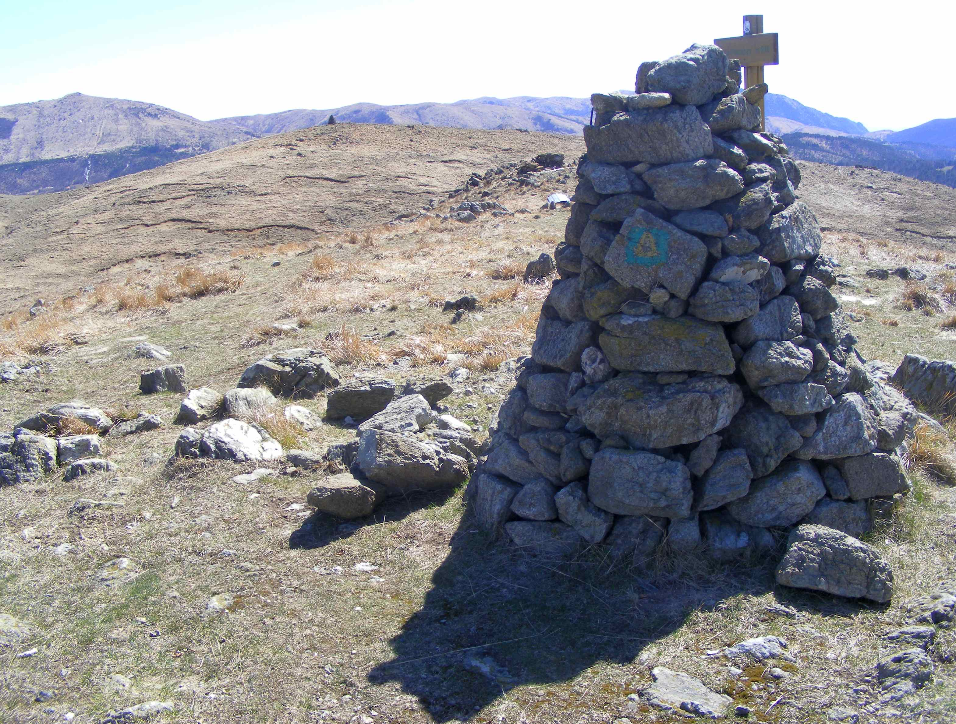 Mount Pracaban (GE-AL, Italy)